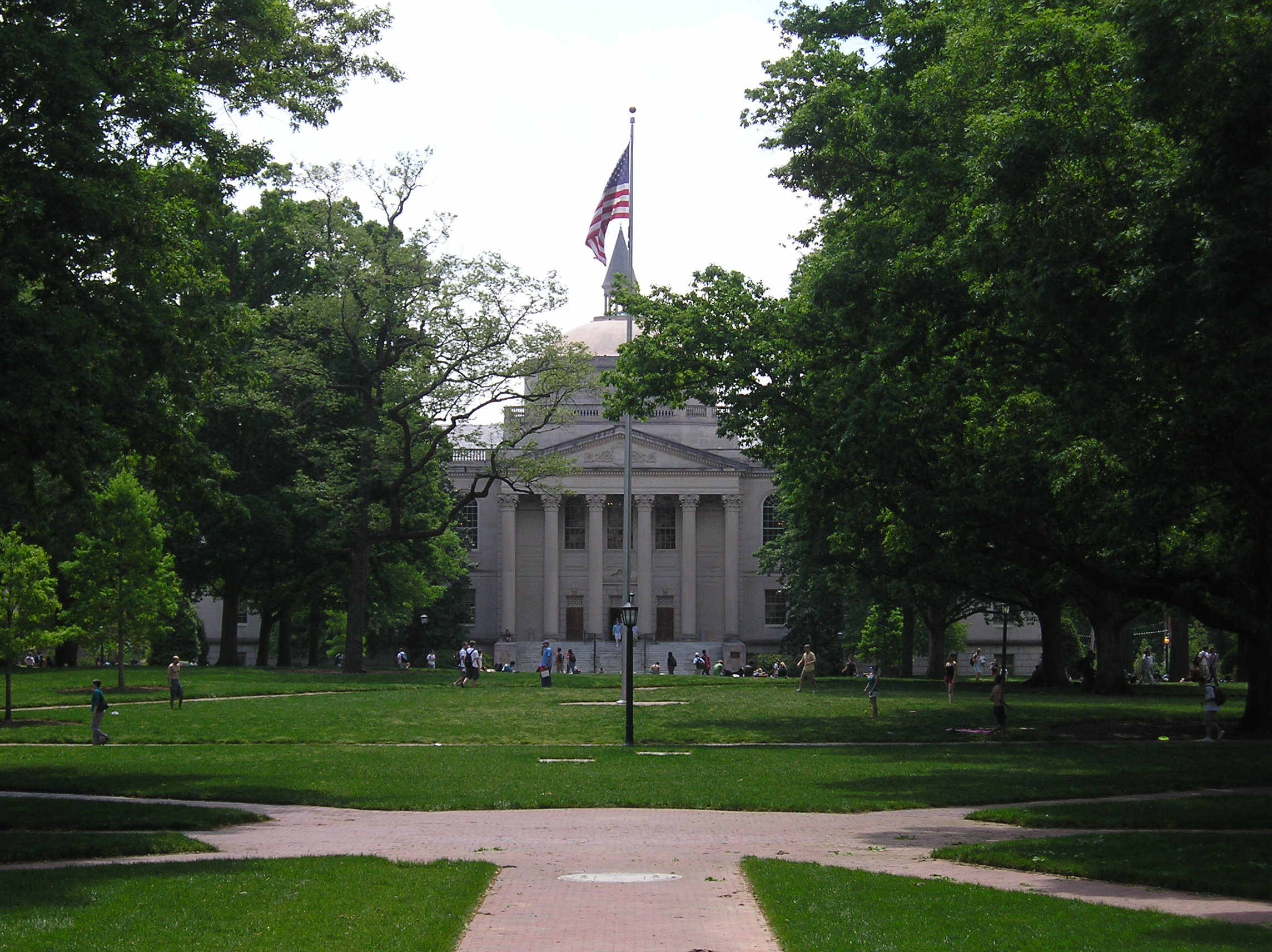 Polk Place at the University of North Carolina at Chapel Hill, looking towards the Wilson Library.